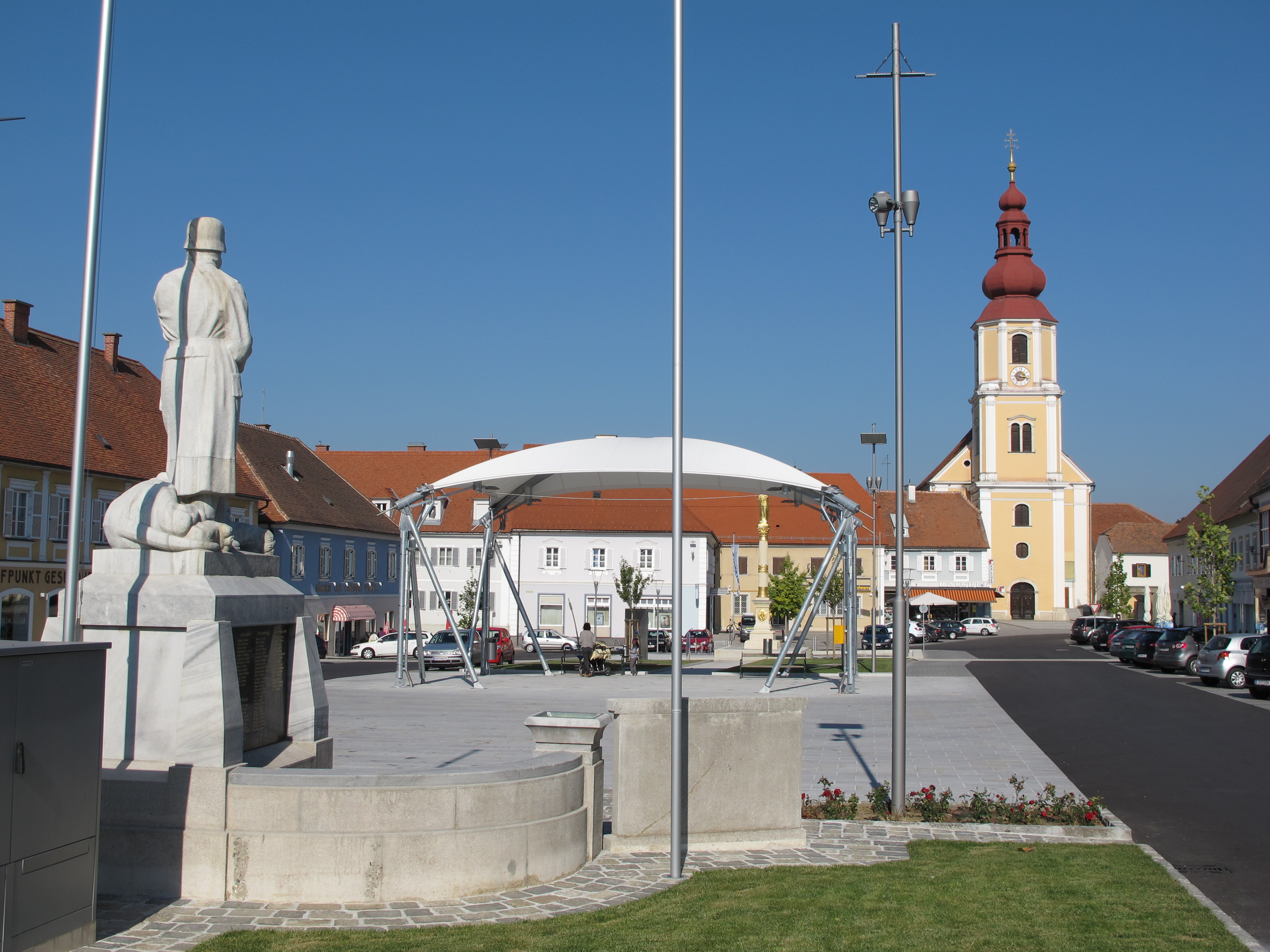 Fehring